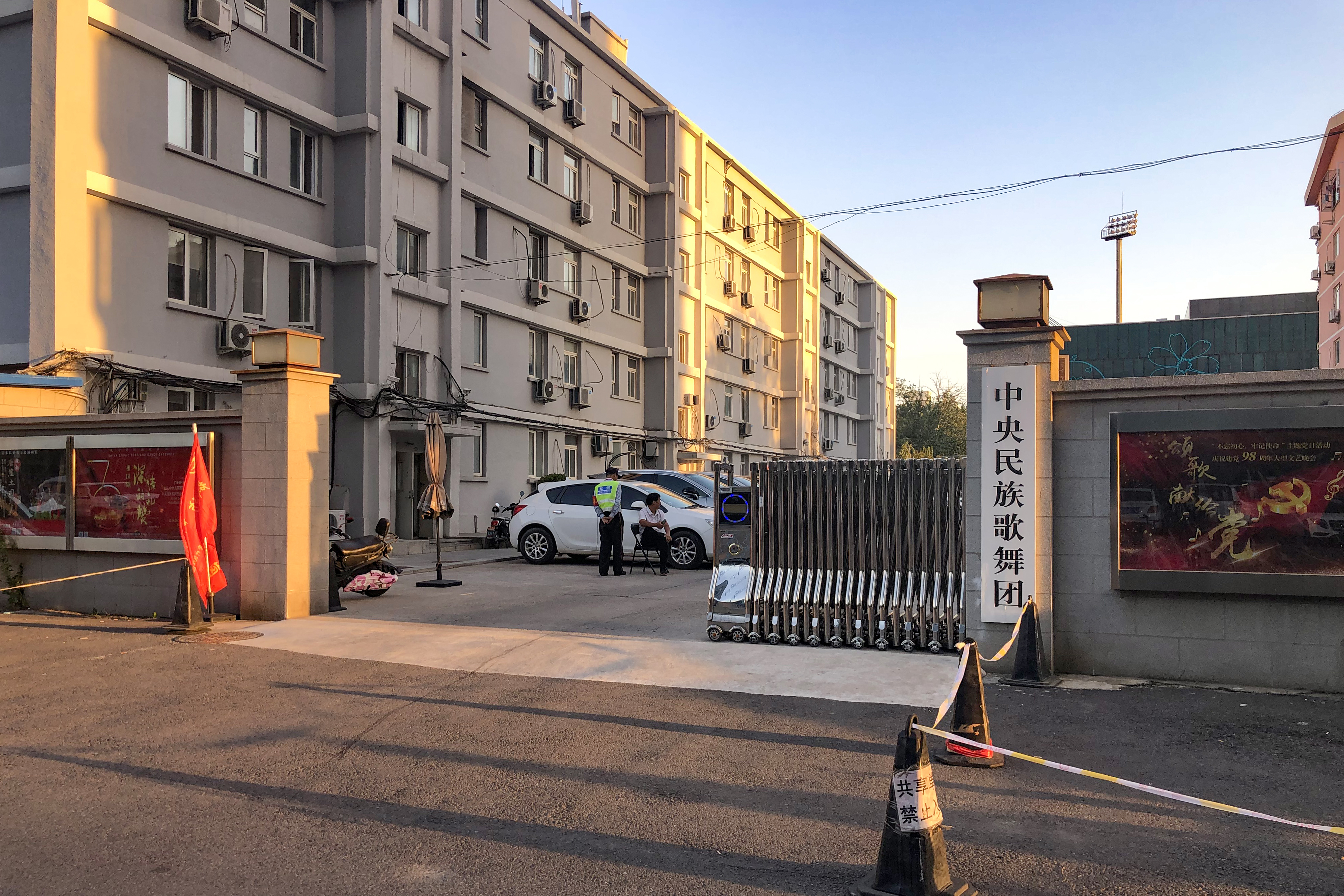 Located near Minzu University.